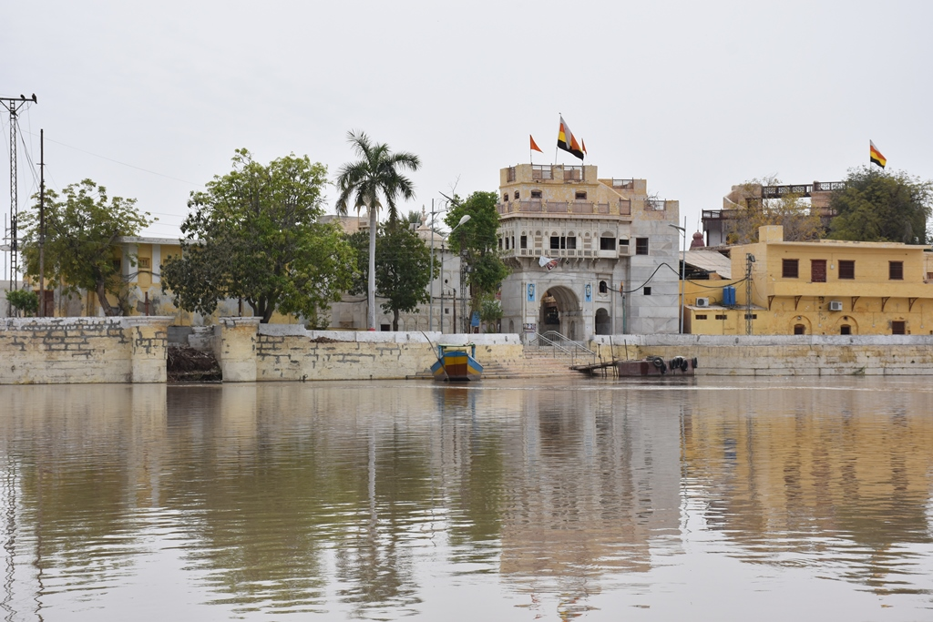 Hindu Temple This is a photo of a monument in Pakistan identified as the SD-U-29